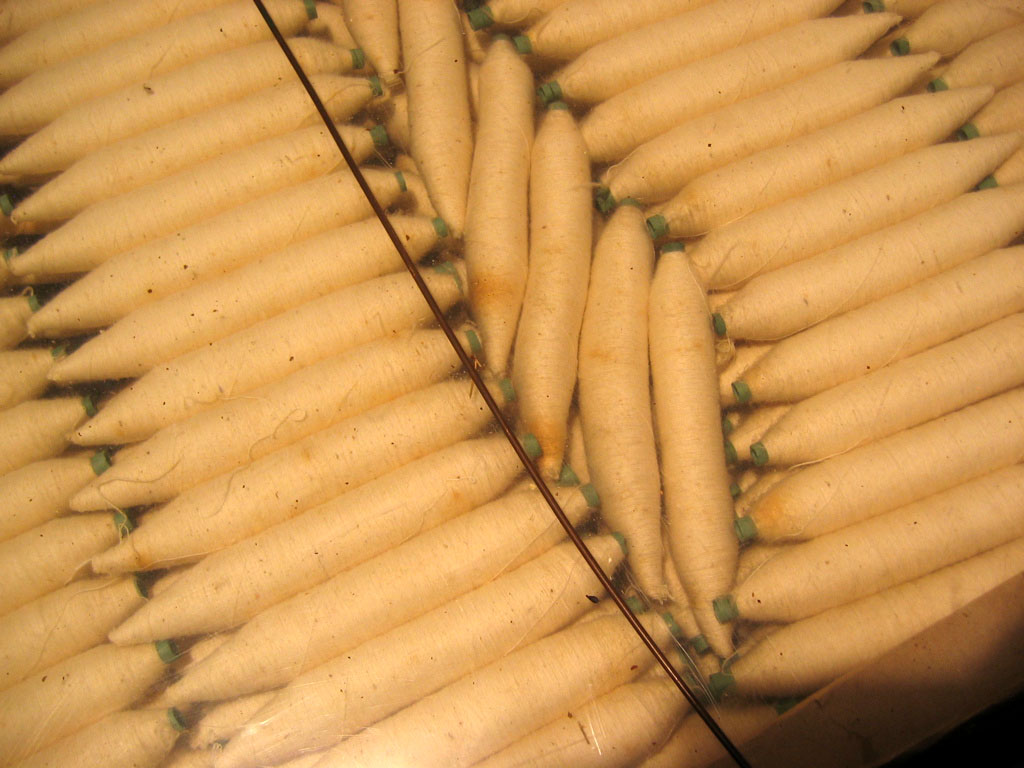 Bobbins of cotton thread